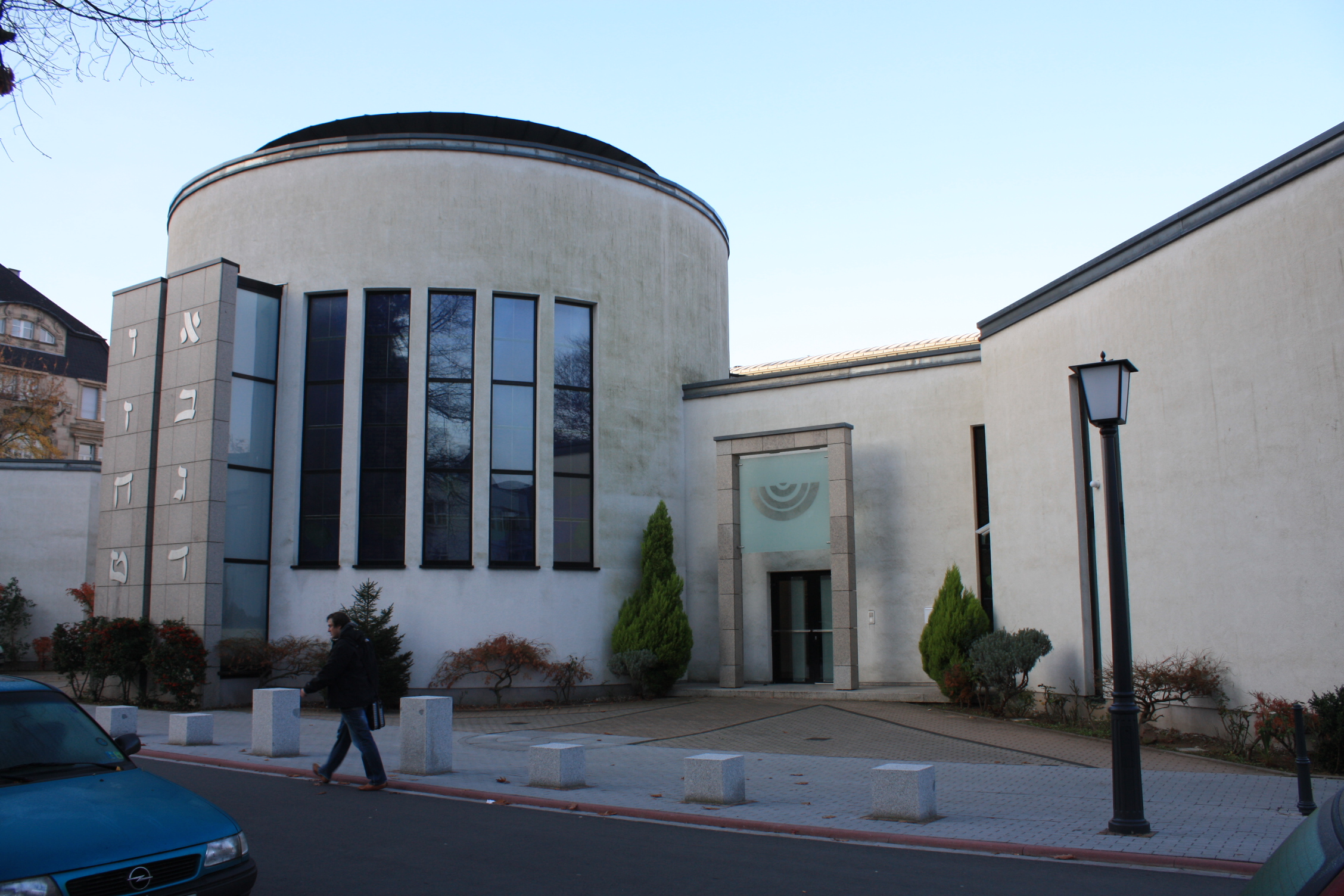 The (new) sysnagogue in Heidelberg, Germany